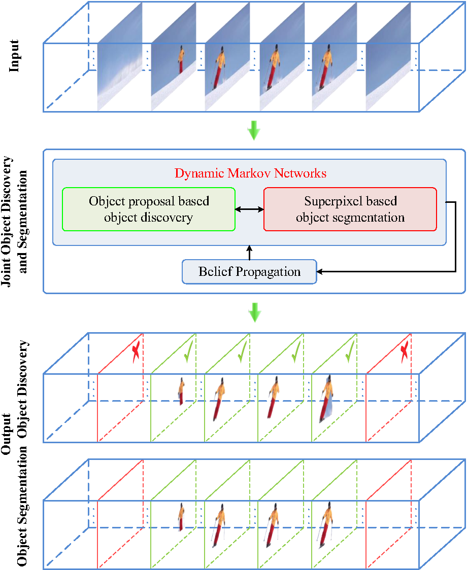 Illustration of the Framework for Joint Video Object Discovery and Segmentation